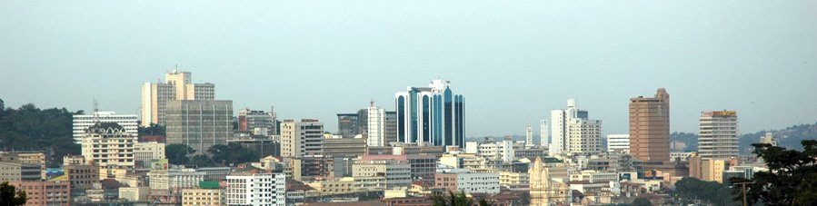 Kampala Skyline